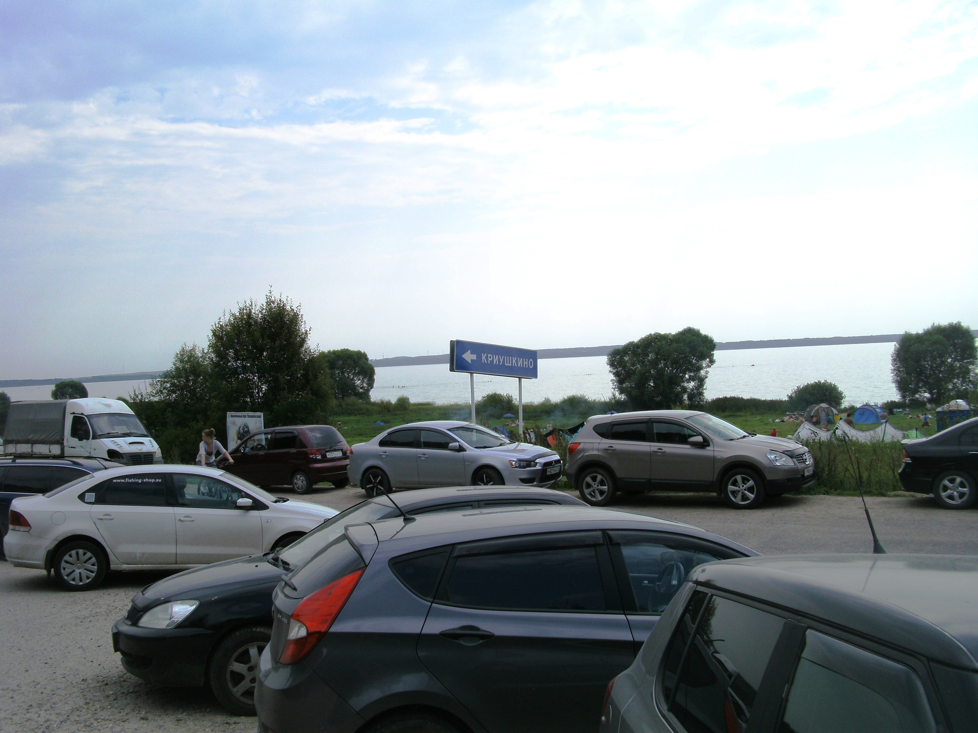 Kriushkino village in Russia